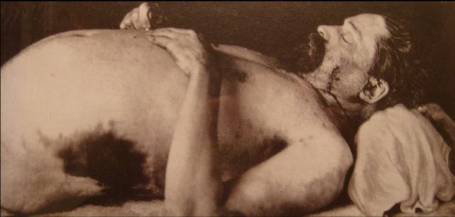 Dead corpse of Andrey Shingarev